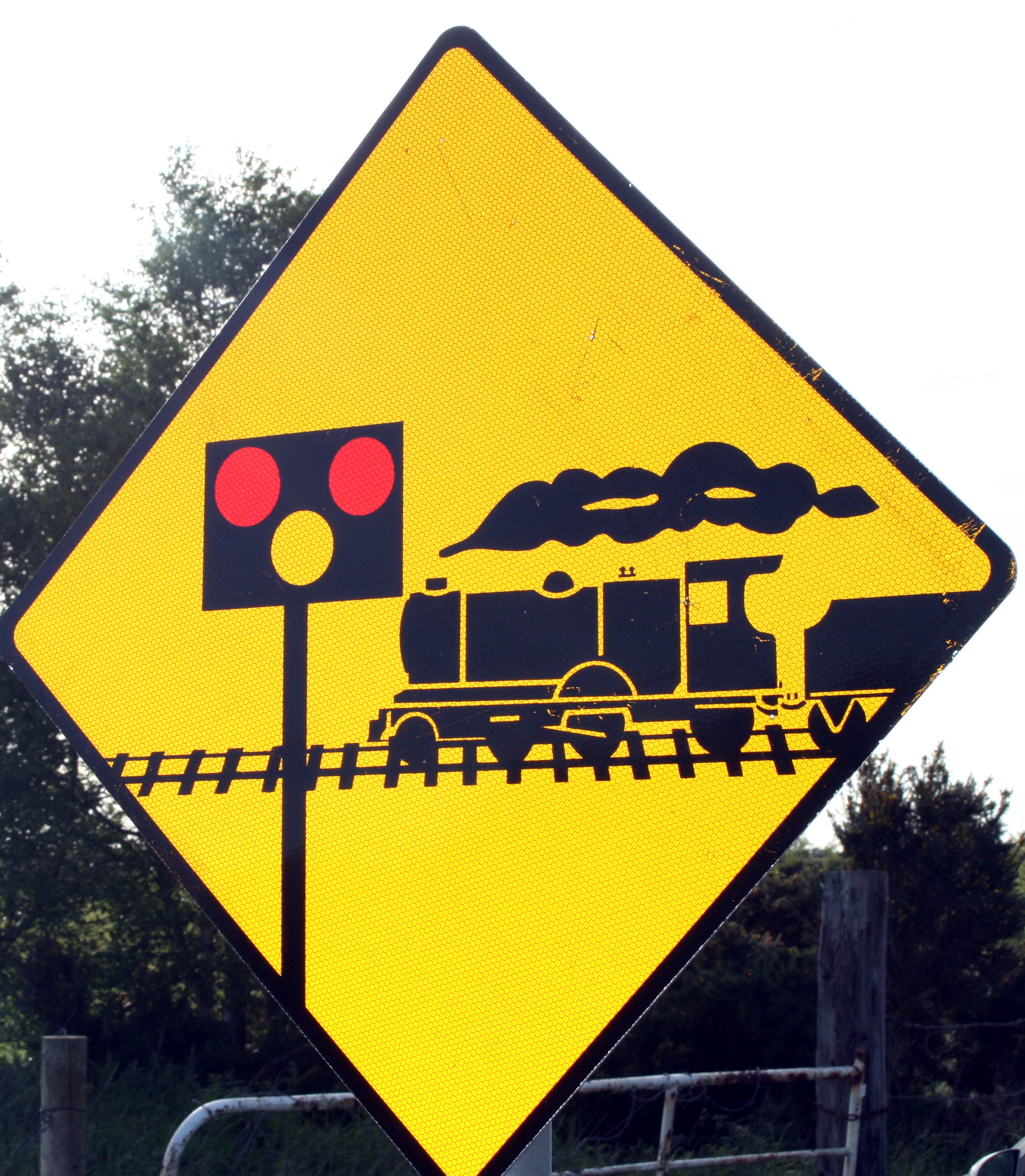 Railway crossing ahead; Irish road sign